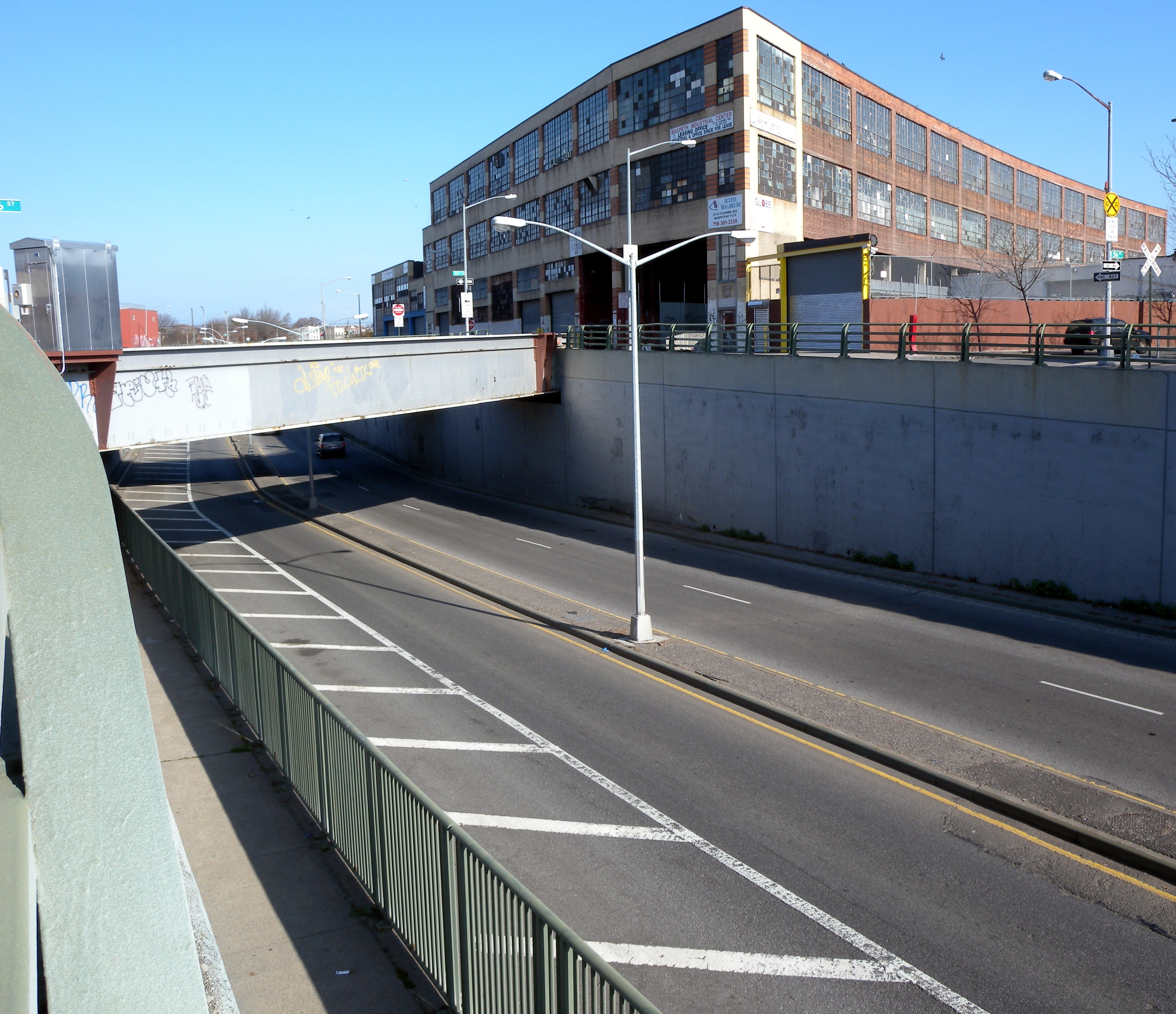 Loking east as Flushing Avenue goes under the Bushwick Branch on a quiet, sunny Sunday midday. Masbeth Industrial Center is on right.